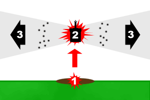 The various stages of a German S-mine detonating 1. Smaller propelling charge explodes, sending the mine into the air 3 to 5 feet. 2. Larger main charge explodes. 3. Metal shrapnel sprays the surrounding area along a horizontal angle.